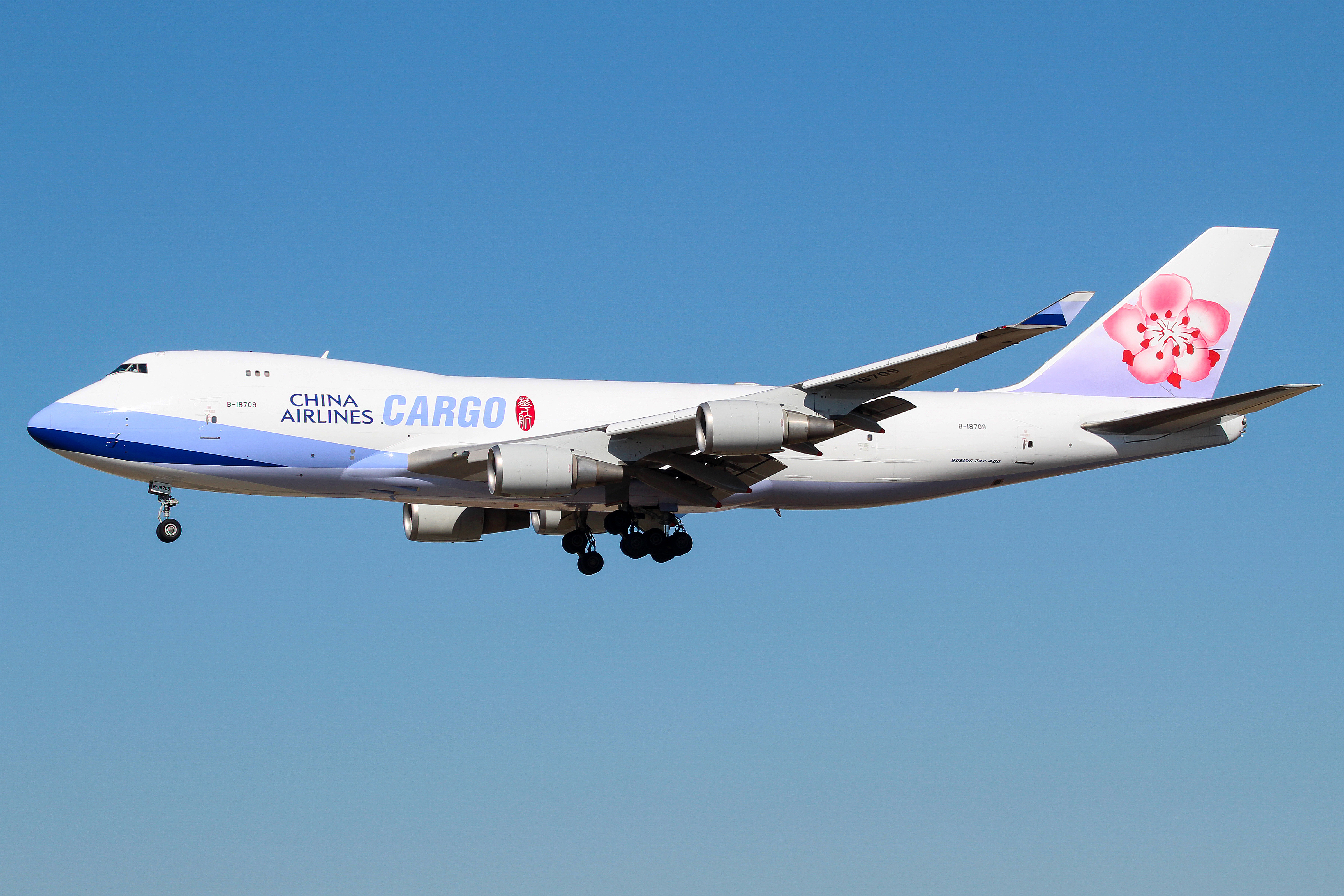 China Airlines Cargo Boeing 747-400F during landing at Frankfurt airport.